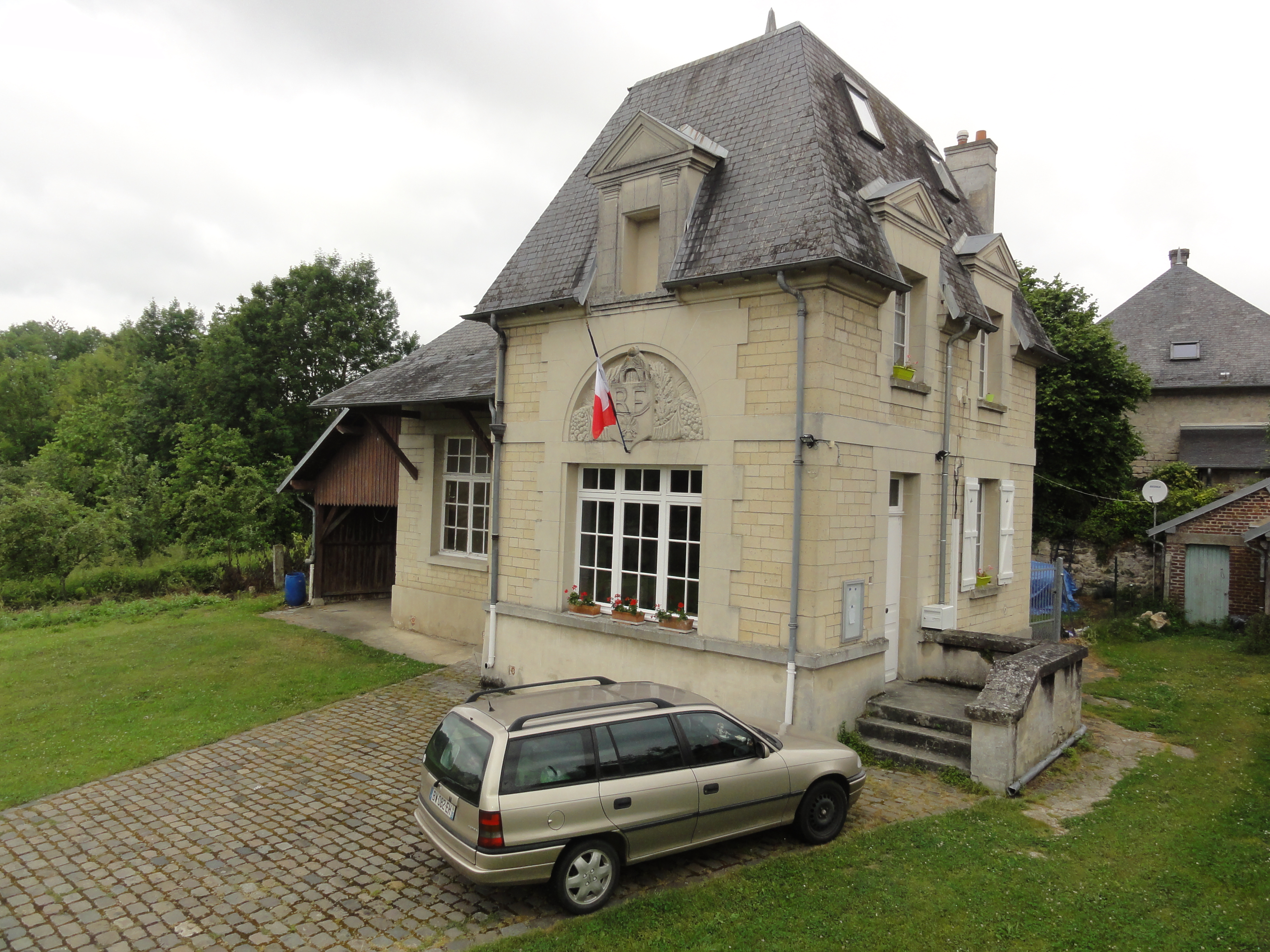 Quincy-Basse (Aisne) mairie